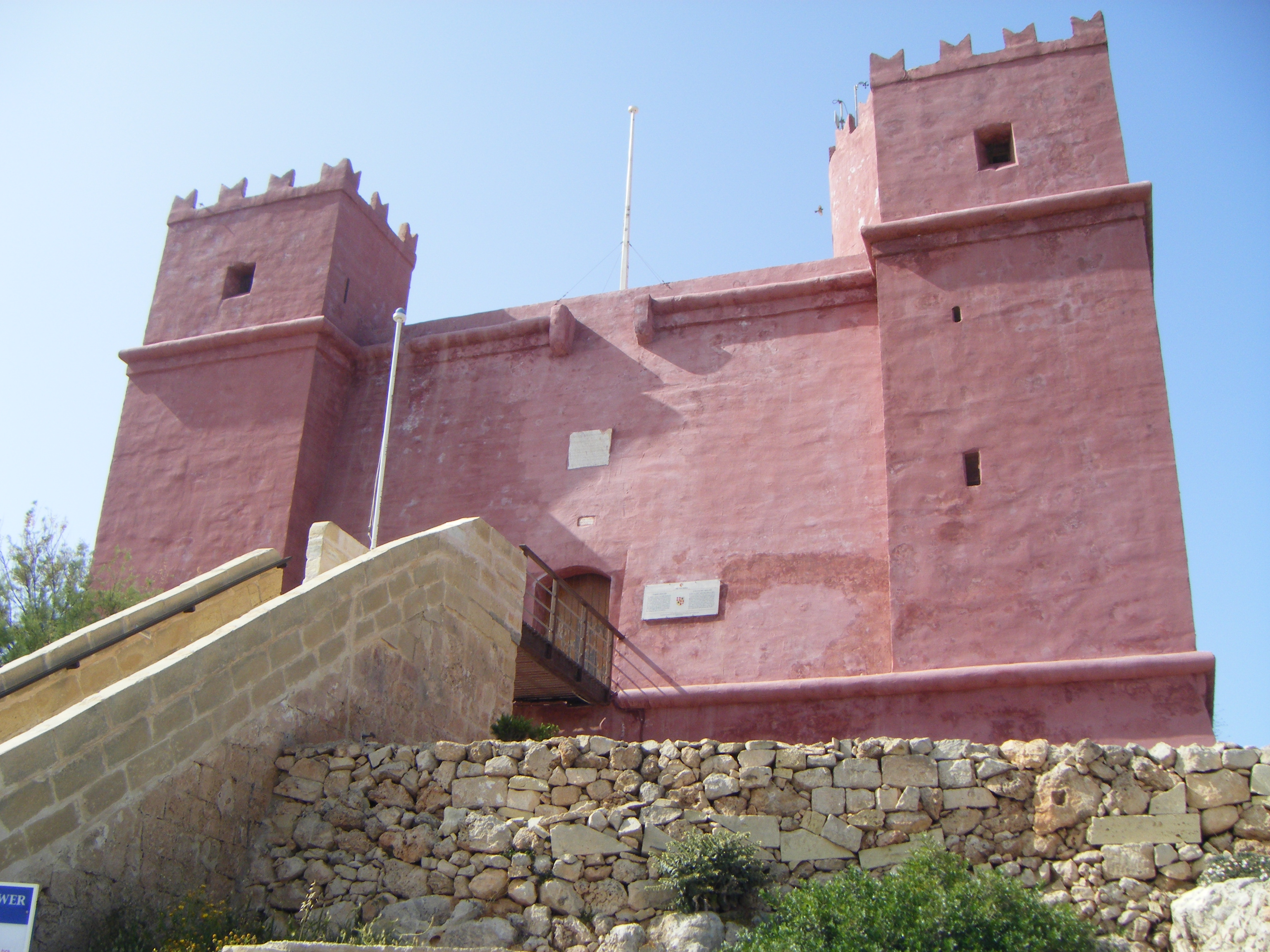 South View of St. Agatha's Tower, Malta This media is about Maltese cultural property with inventory number 33.